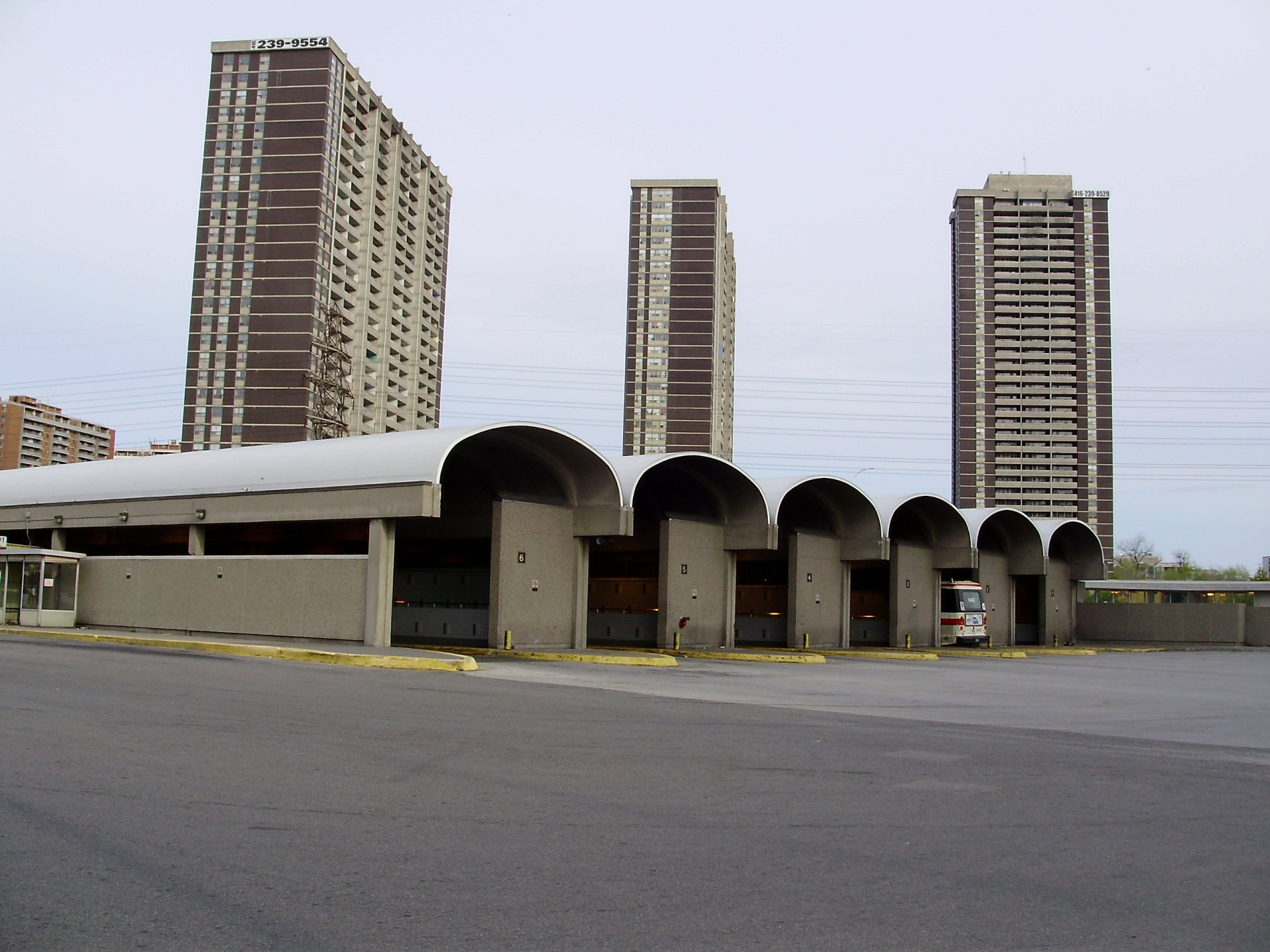 The bus loading zones at the Toronto Transit Commission's Islington TTC Station in Etobicoke, serving TTC and Mississauga Transit surface routes.